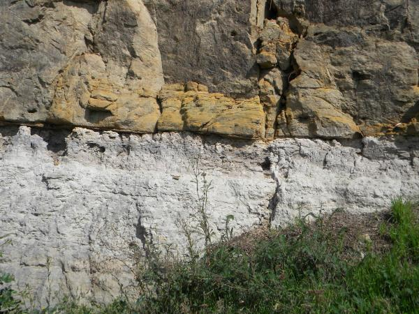 Paraconformity between Cretaceous sediments in the Chvaly Quary, Horni Pocernice, Prague, CZ